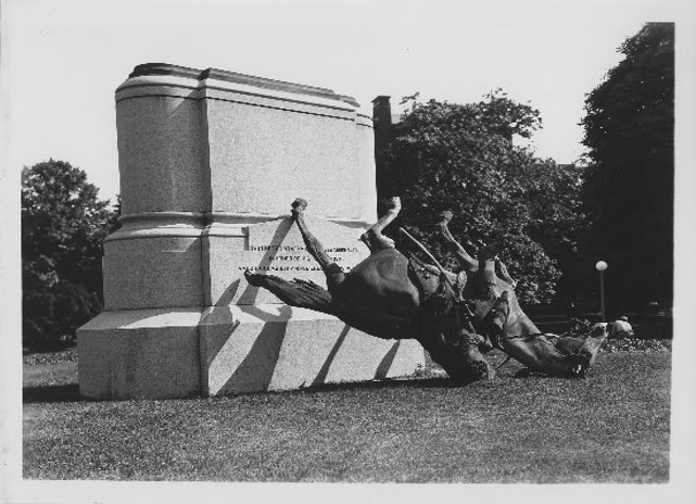 Equestrian statue of Gen. Nathanael Greene toppled from its base in 1930.